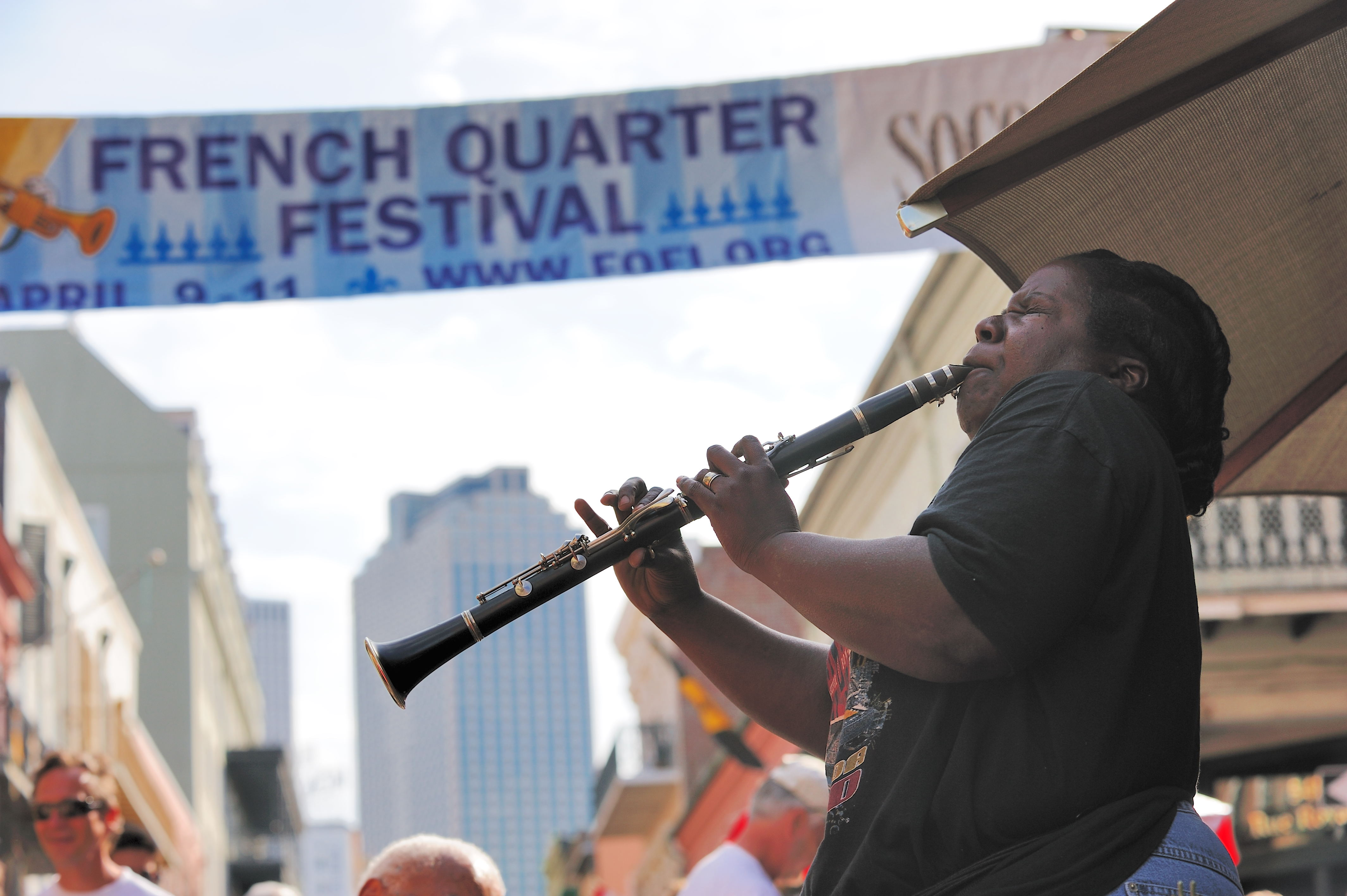 Doreen Ketchens on clarinet, French Quarter Festival, New Orleans